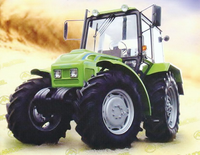 Amobil Tractor